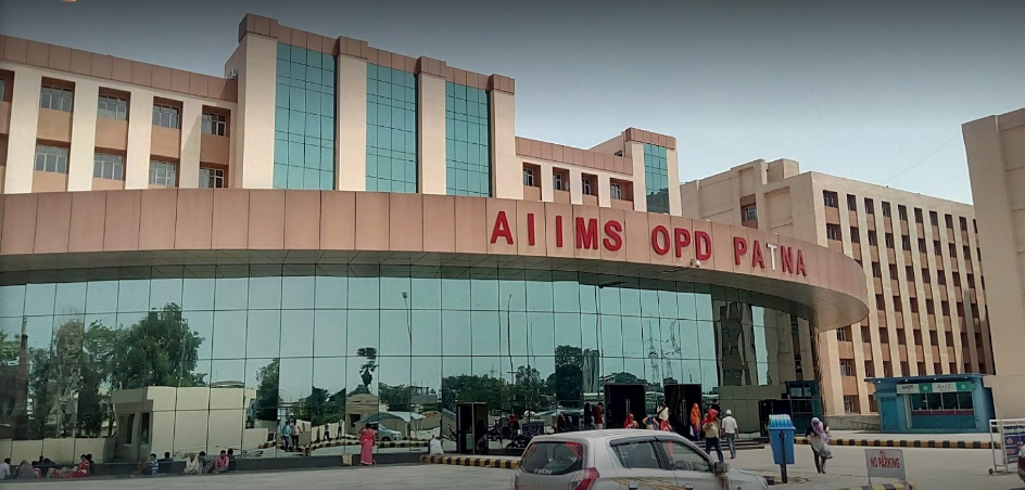 Aiimspatnaopd